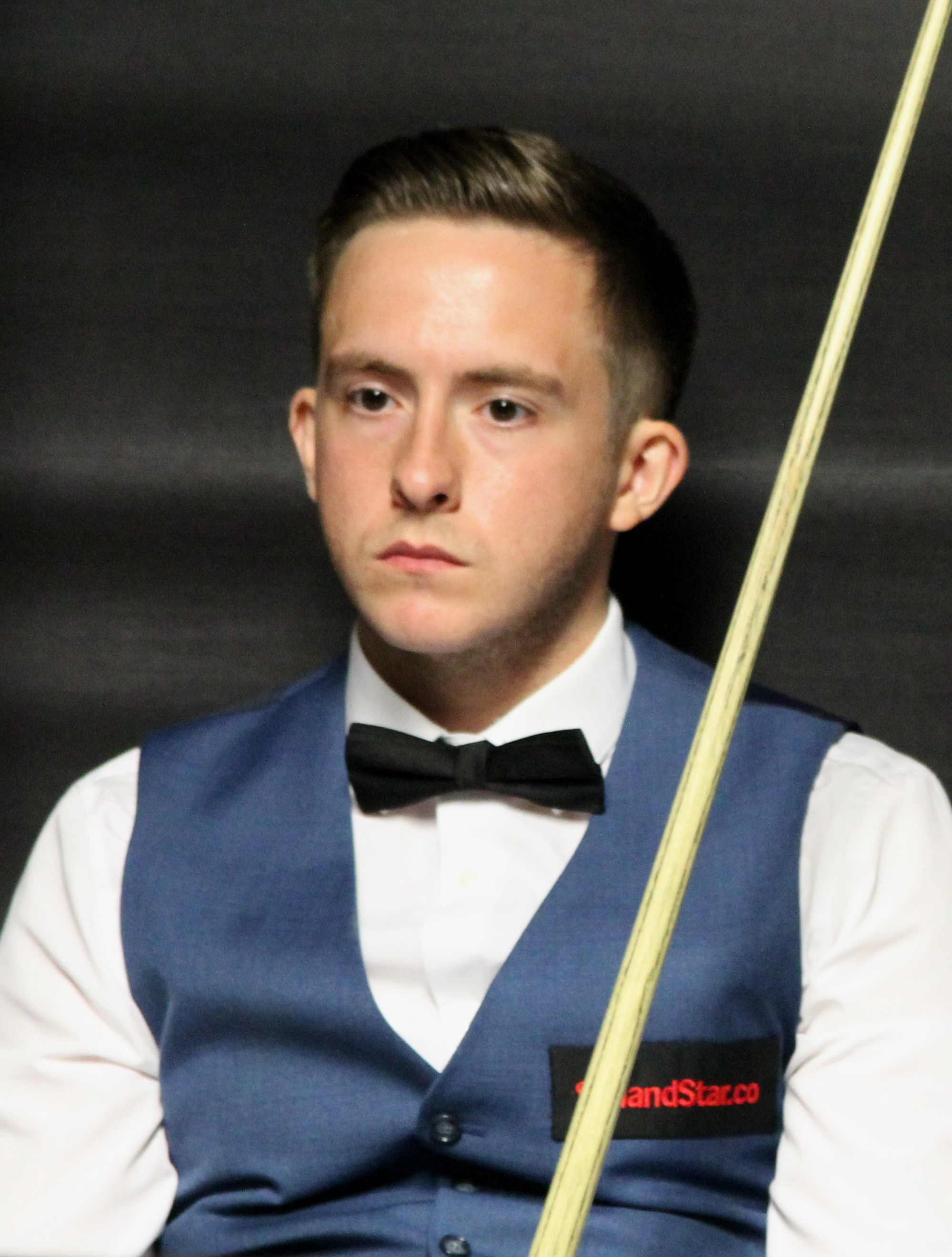 Sean O’Sullivan beim Paul Hunter Classic 2016